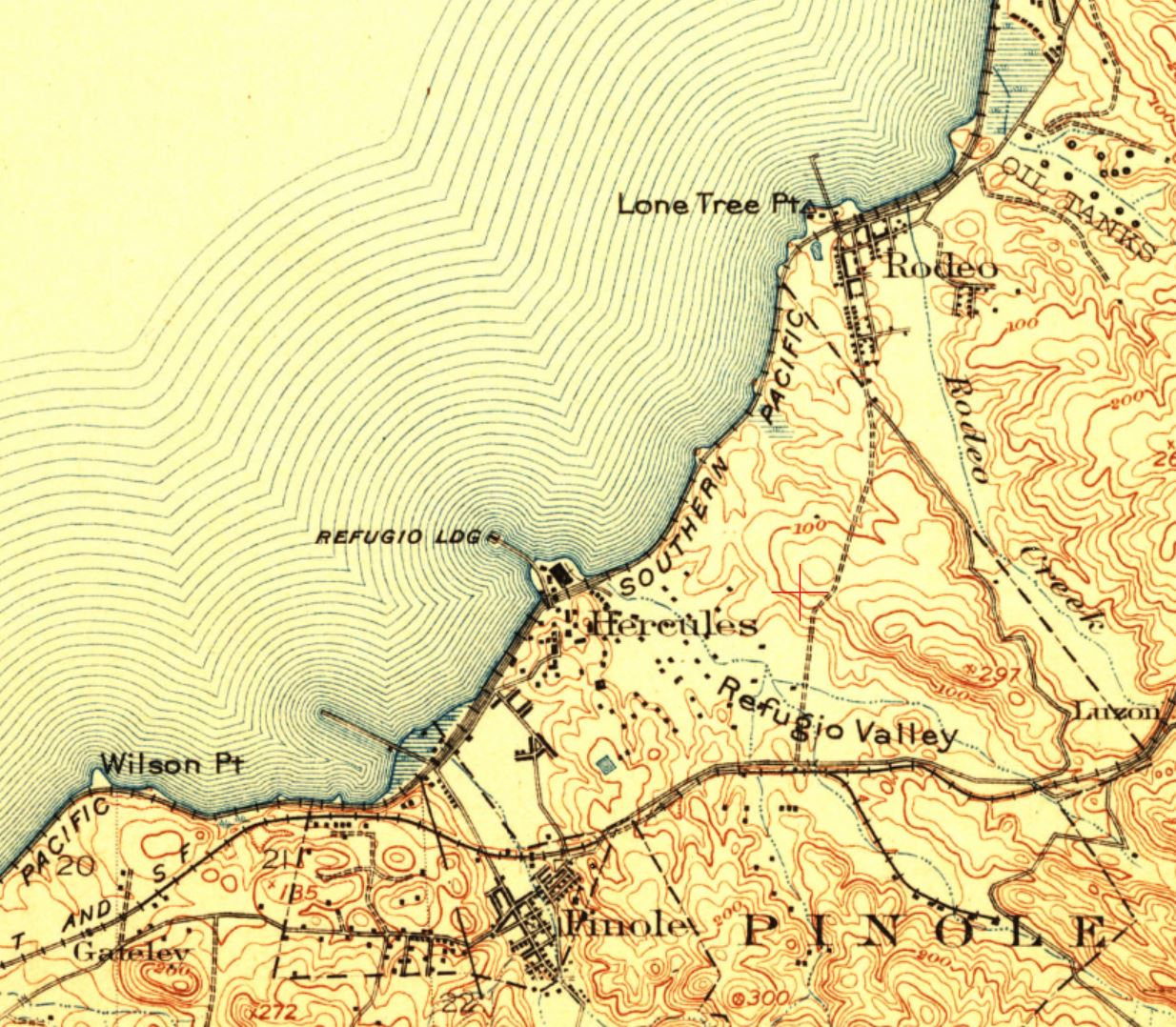 Excerpt from the 1:24,000 1916 USGS topographic map centered centered on Hercules CA